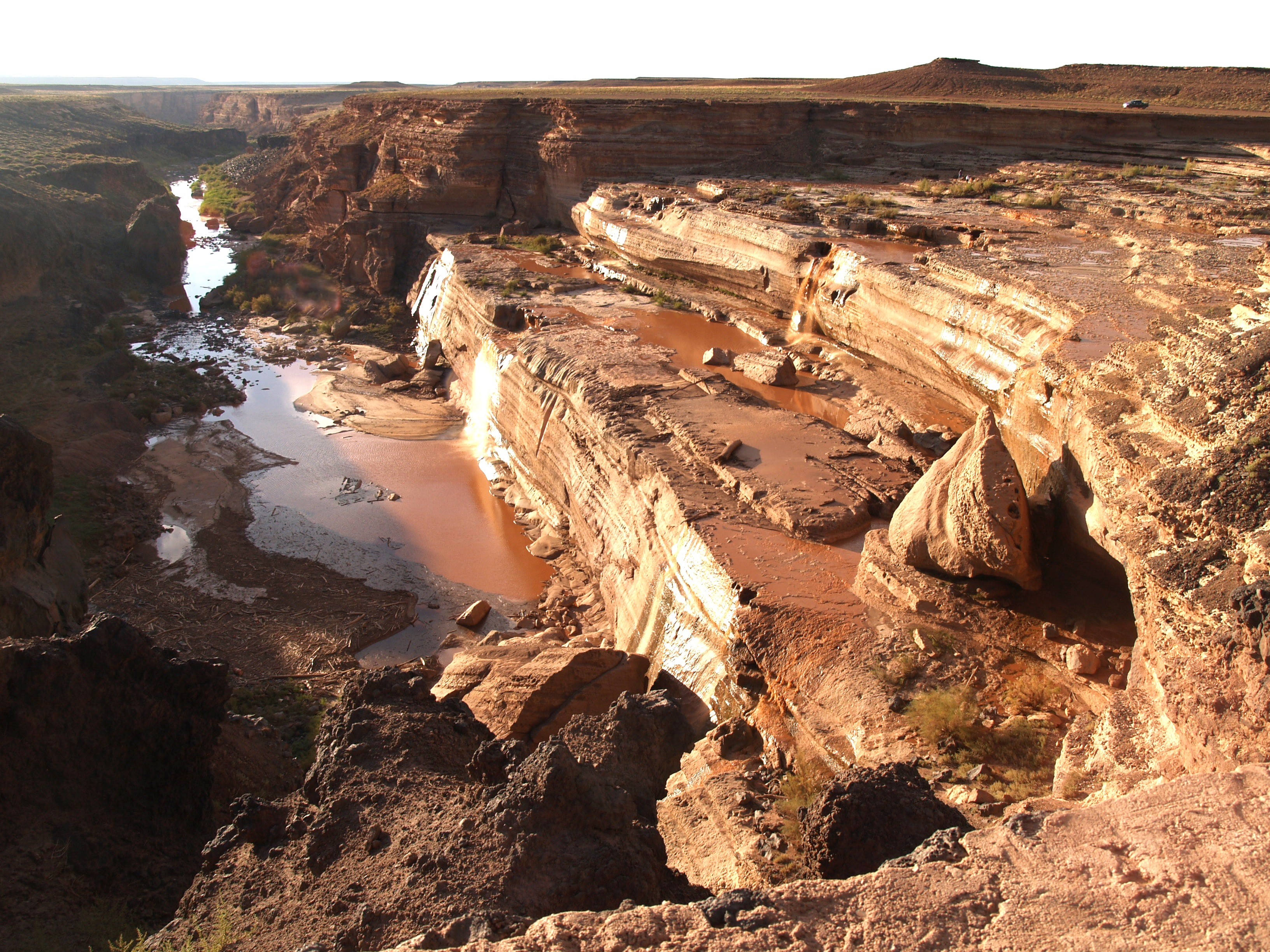 Photo of the Grand Falls Of The Little Colorado River on the Navajo Reservation in Arizona. At 185 feet (56 m) high, it has a greater drop than Niagara Falls.